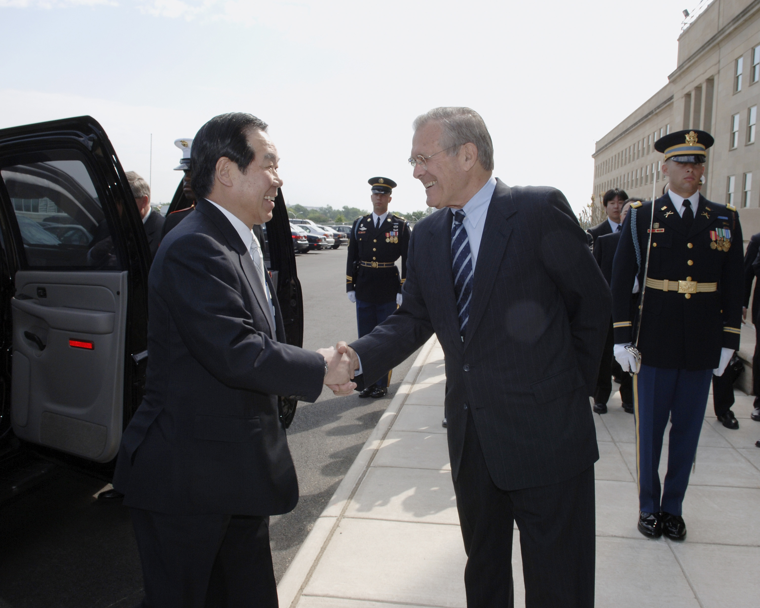 Secretary of Defense Donald H. Rumsfeld (center) welcomes Japanese Minister of State for Defense Fukushiro Nukaga (left) as he arrives at the Pentagon on May 3, 2006. Rumsfeld and Nukaga will meet to discuss defense issues of mutual interest.